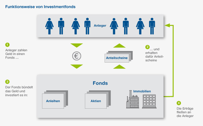 Functional principle of an open-ended investment fund in German.